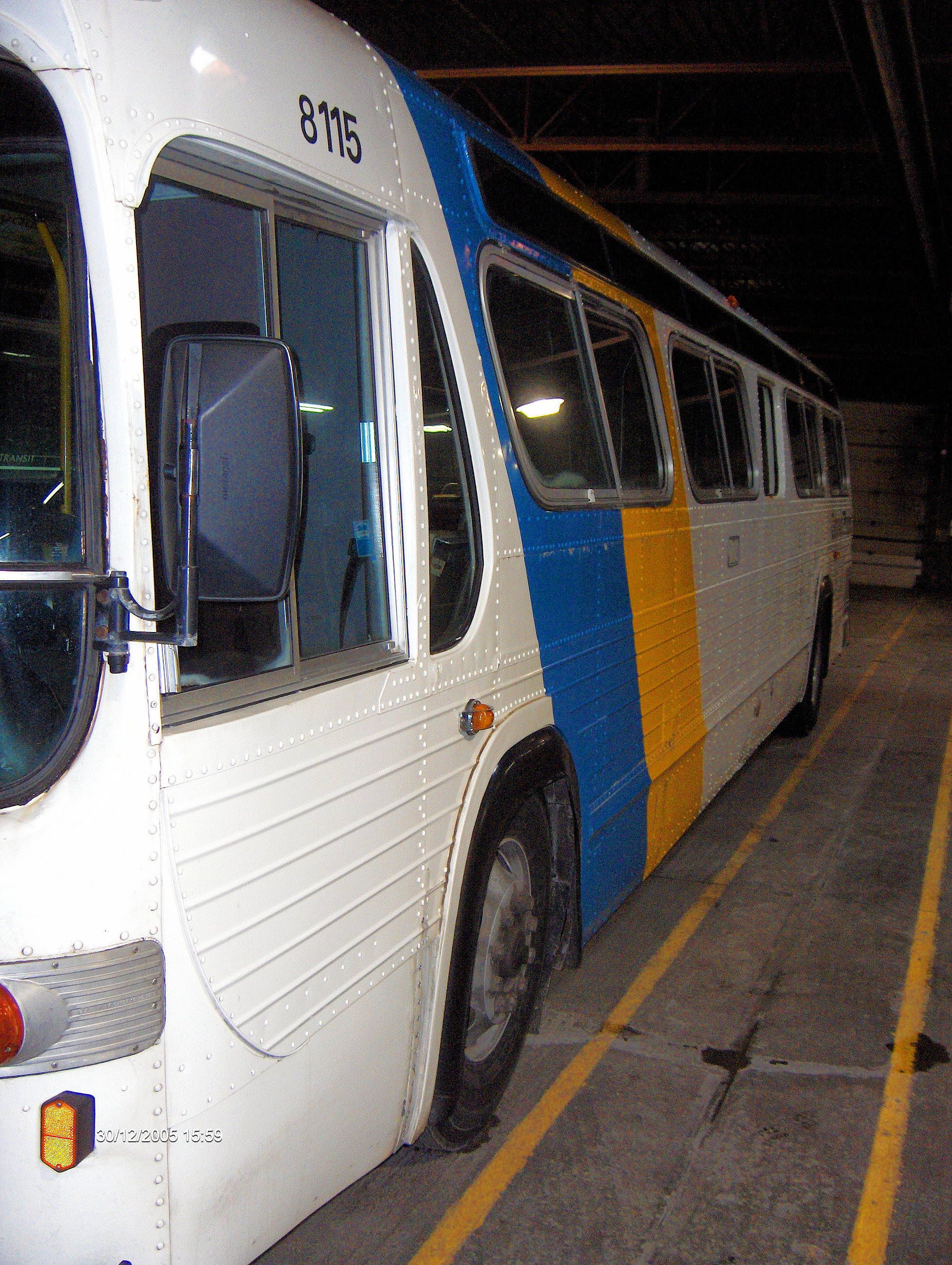 Oshawa Transit bus 115 renumbered to 8115 to comply with the numbering scheme of the soon to be Durham Region Transit.